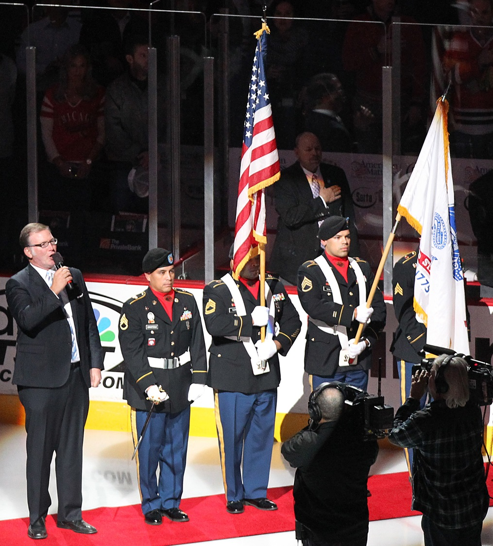 Jim Cornelison prepares to sing the national anthem at the United Center before a Chicago Blackhawks game.